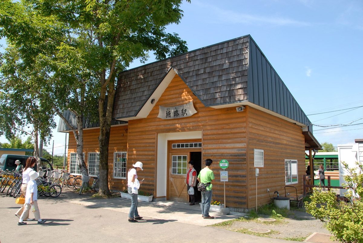 JR Hokkaido Tōro Station